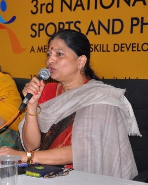 Former athlete and Executive Director at Sports Authority of India